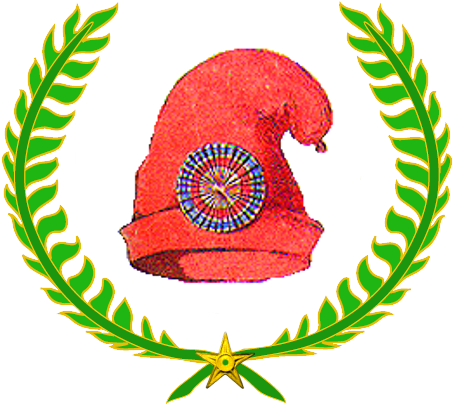 Wikipedia reward for users with significative works about the french revolution.